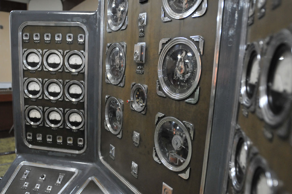 Equipment found on the Semipalatinsk Test Site